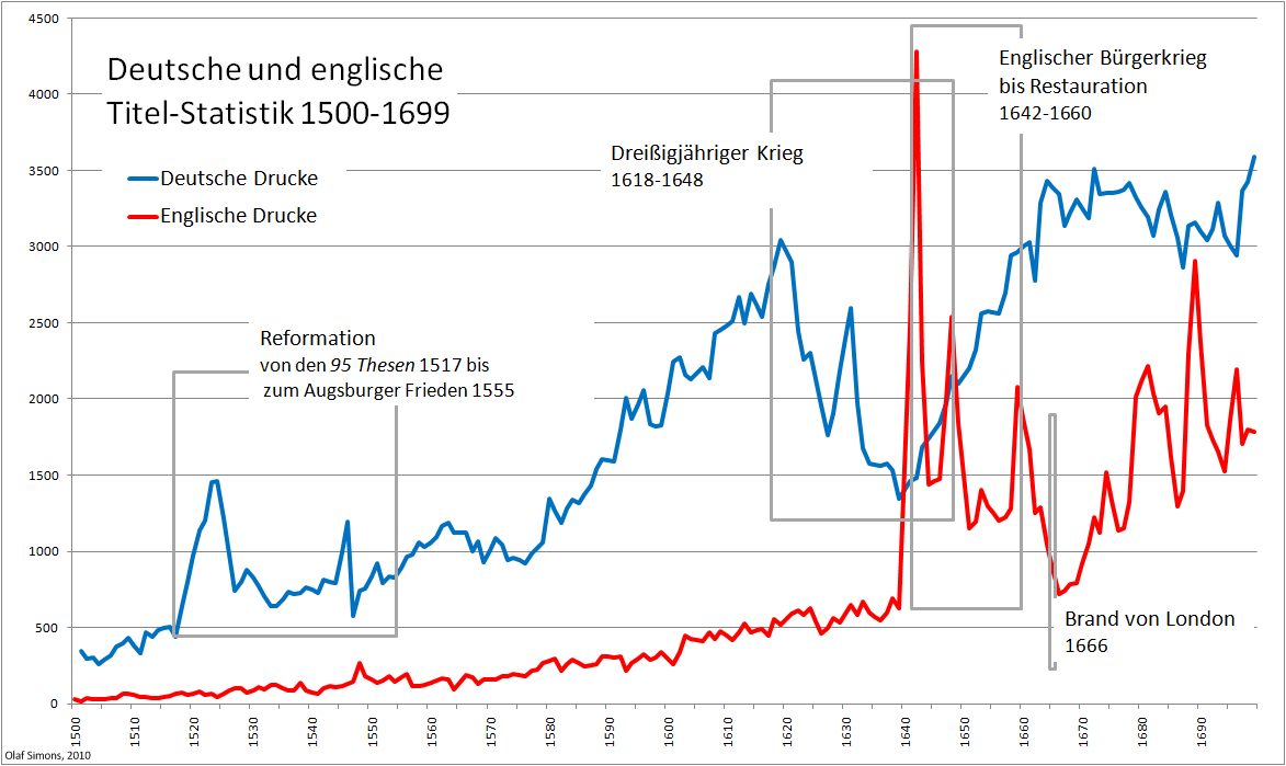 German and English press output in title numbers, data from VD 16, VD 17 and ESTC. Diagram with historical events. See Olaf Simons, The English market of books: title statistics and a comparison with German data, at Critical Threads (2013) for data and details.